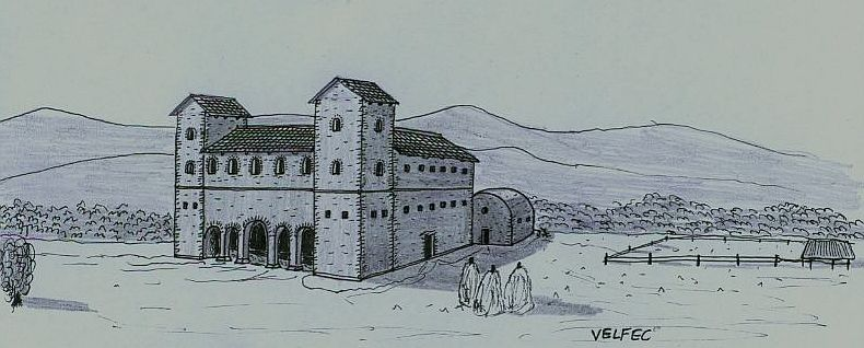 Reconstruction Roman Mansio/Praetorium, Oedenburg-Altkirch (F)